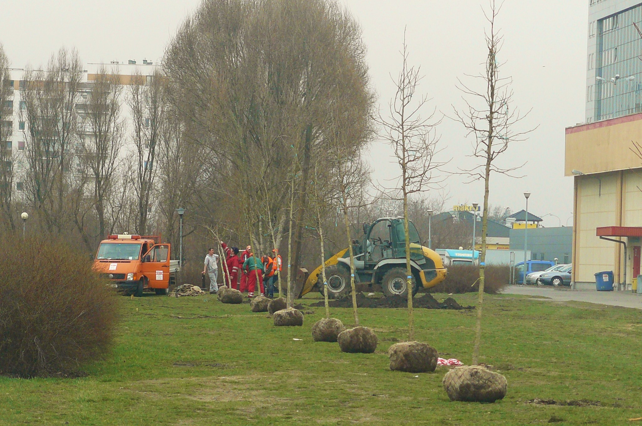 Planting of trees. Spring cleaning. Poznań - Winogrady, 2013.